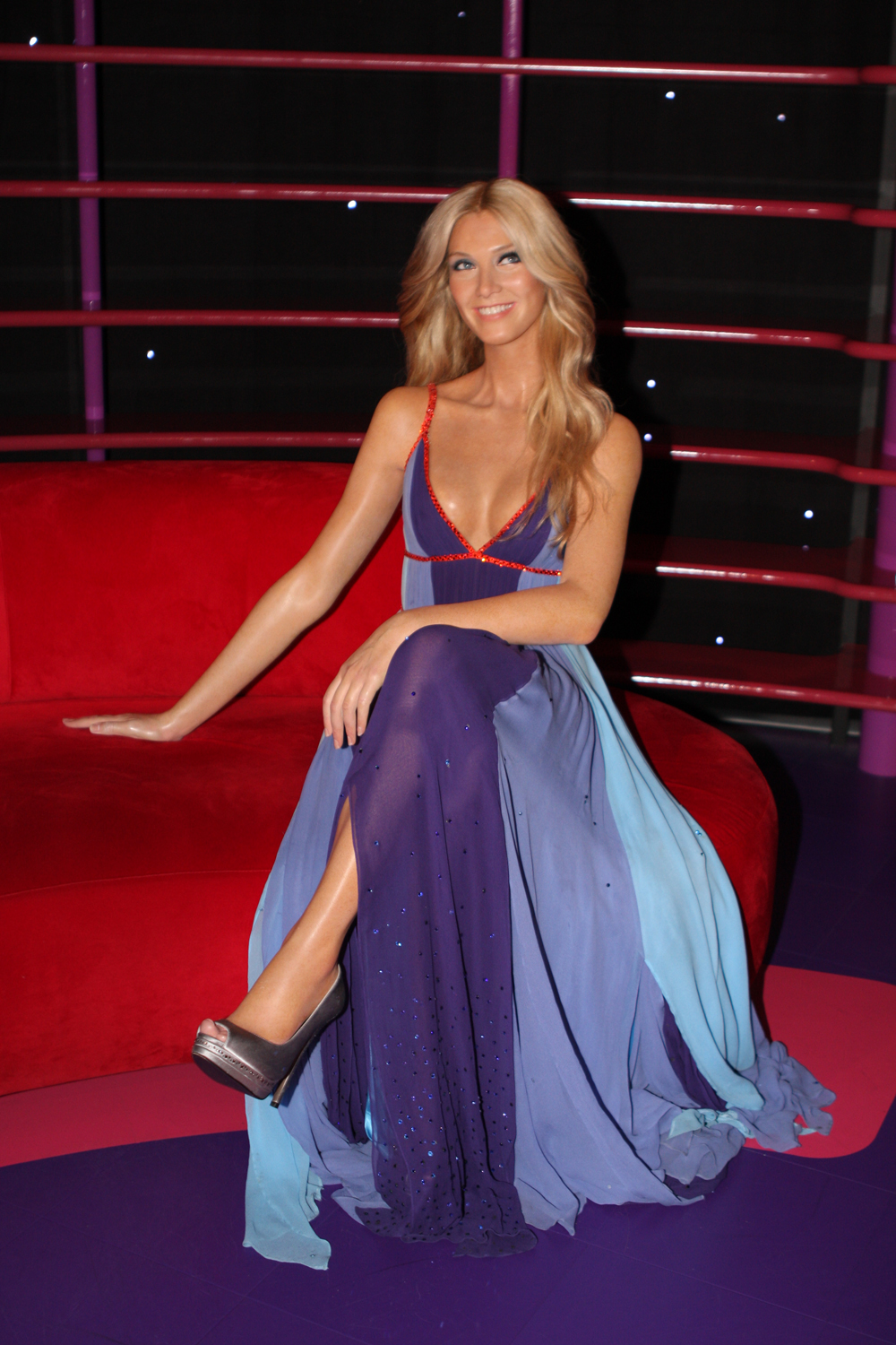 A wax sculpture of Delta Goodrem at Madame Tussauds Sydney.